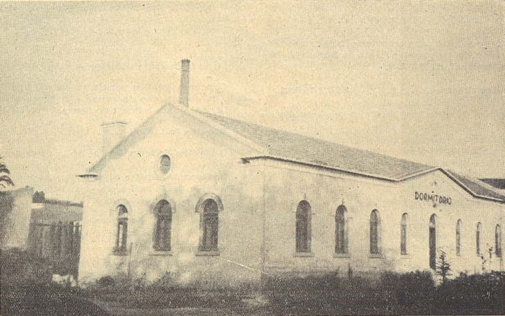 Workers dormitory at Beja Railway Station, in Portugal. This photograph was published on the Gazeta dos Caminhos de Ferro magazine No. 1123, of the 1st October 1934, and scanned by the Hemeroteca Municipal de Lisboa.